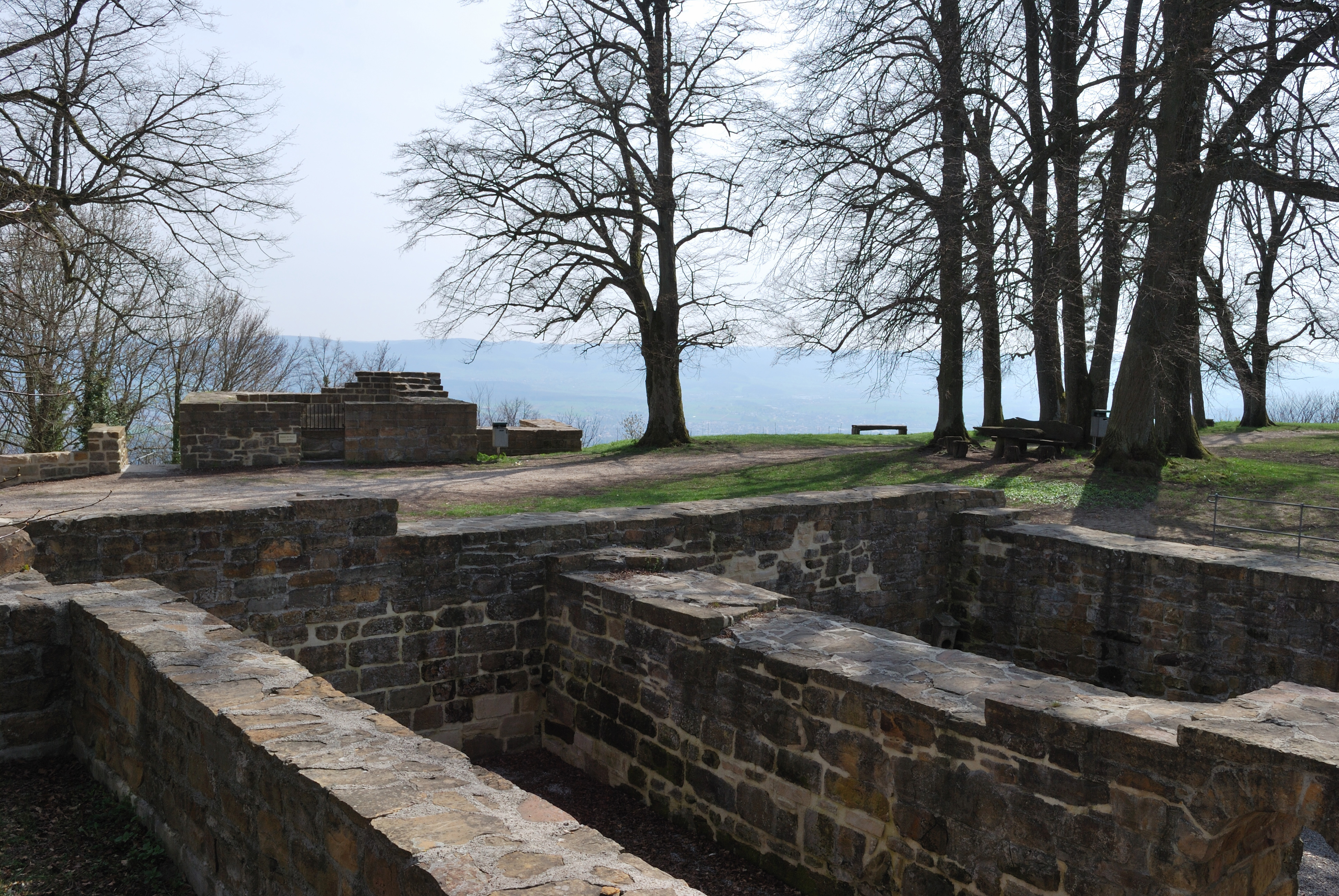 Ruins of the Hohenstaufen Castle near Göppingen in Southern Germany.